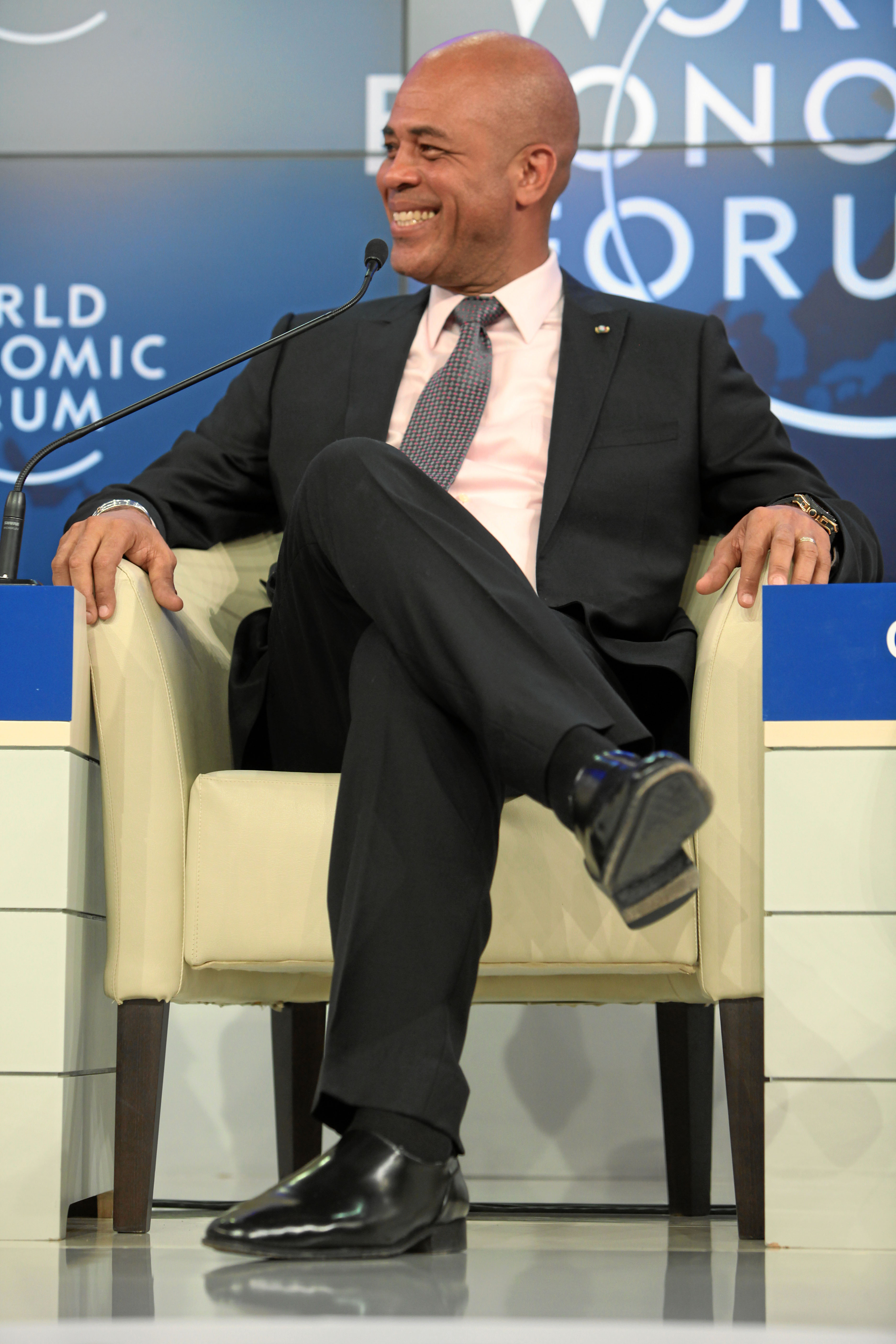 DAVOS/SWITZERLAND, 27JAN12 - Michel Joseph Martelly, President of Haiti is seen during the session 'Building a Better Haiti' at the Annual Meeting 2012 of the World Economic Forum at the congress centre in Davos, Switzerland, January 27, 2012.. . Copyright by World Economic Forum. by Monika Flueckiger